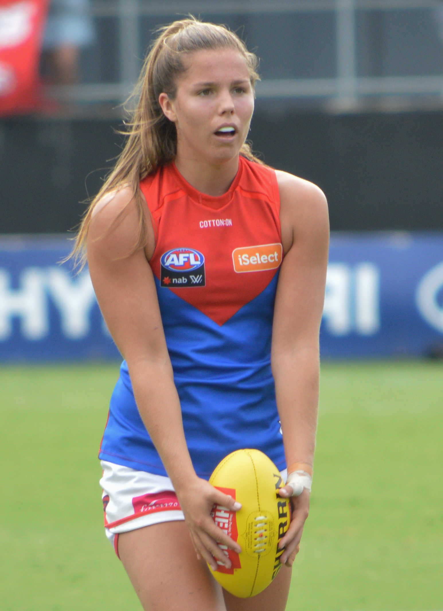 Kate Hore during the round 6, 2018 AFL Women's match between Carlton and Melbourne.